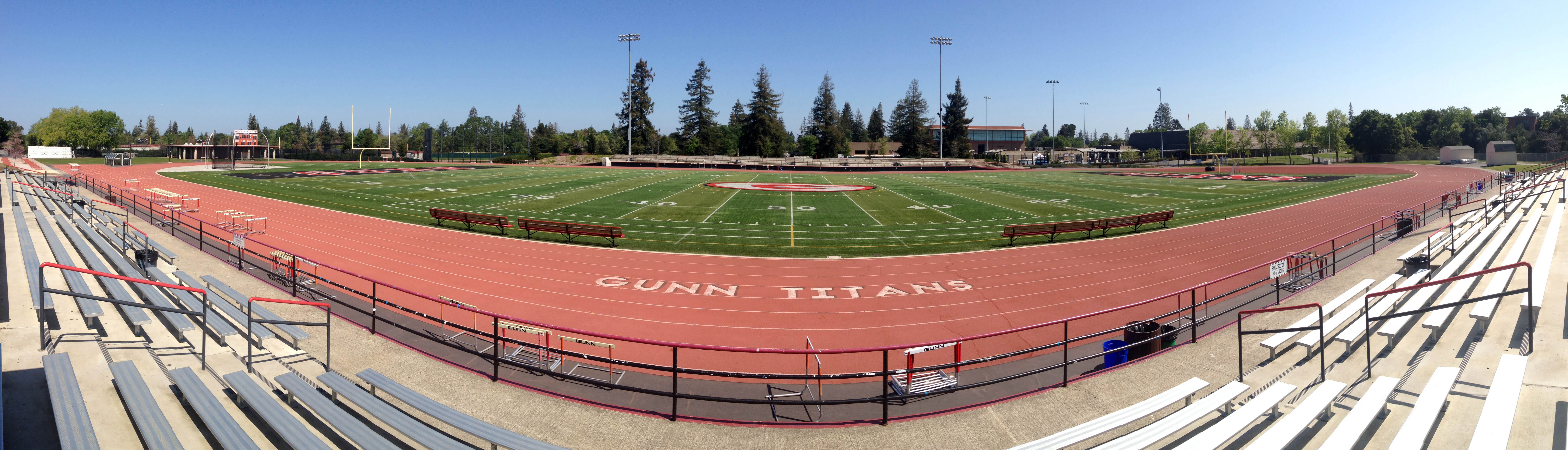 Football field, Gunn High School, Palo Alto, California.